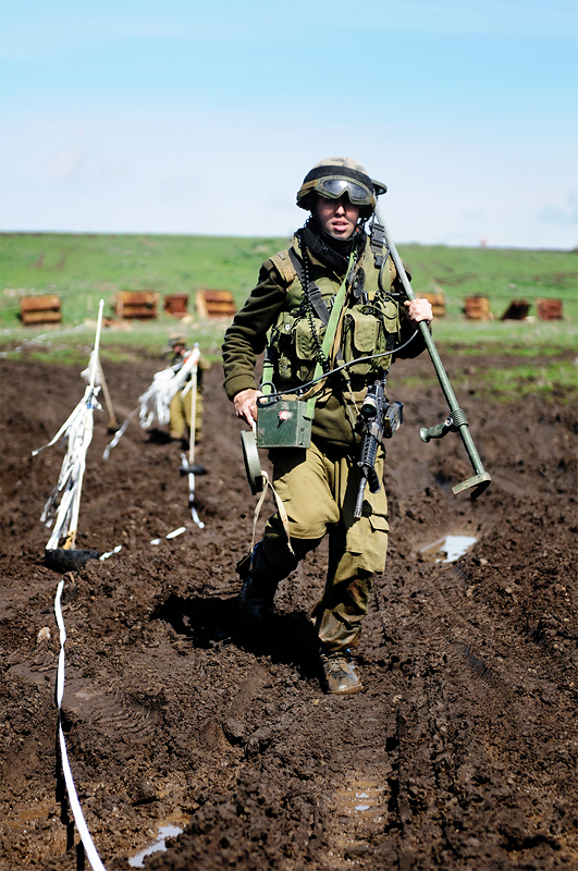 February 22, 2011 The Combat Engineering Corps trains its soldiers in basic infantry combat and turns them into modern engineering warfare experts. One of its soldiers clears a minefield as part of a unit drill. Photo by IDF Spokesperson Unit. Featured as photo of the day on November 28, 2011. The Israel Defense Forces Facebook page The Israel Defense Forces blog Follow us on Twitter